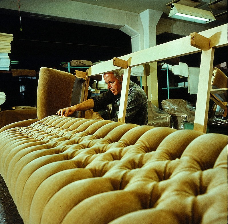 upholsterer